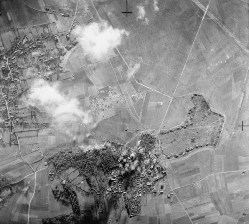 Royal Air Force Bomber Command, 1942-1945. Bombs explode on the northern dispersal area at Abbeville/Drucat airfield, France, during an atttack by 18 Lockheed Venturas of No. 21 Squadron RAF and No. 464 Squadron RAAF.